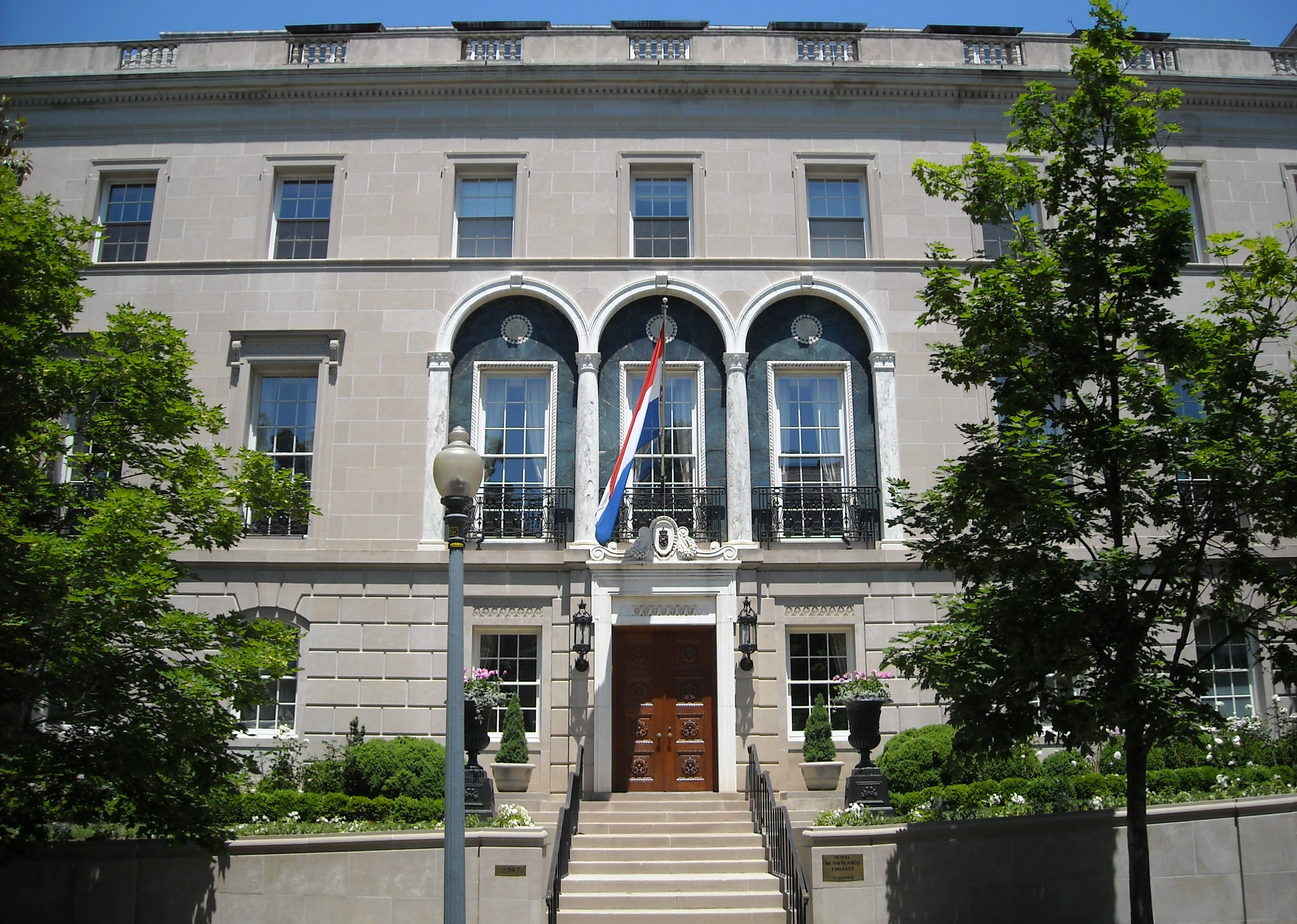 Residence of the Ambassador of the Netherlands — in the Sheridan-Kalorama neighborhood of Washington, D.C. A contributing property to the Sheridan-Kalorama Historic District, listed on the National Register of Historic Places in Washington, D.C.